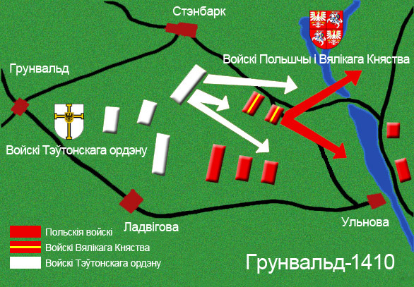 Author: Screen2